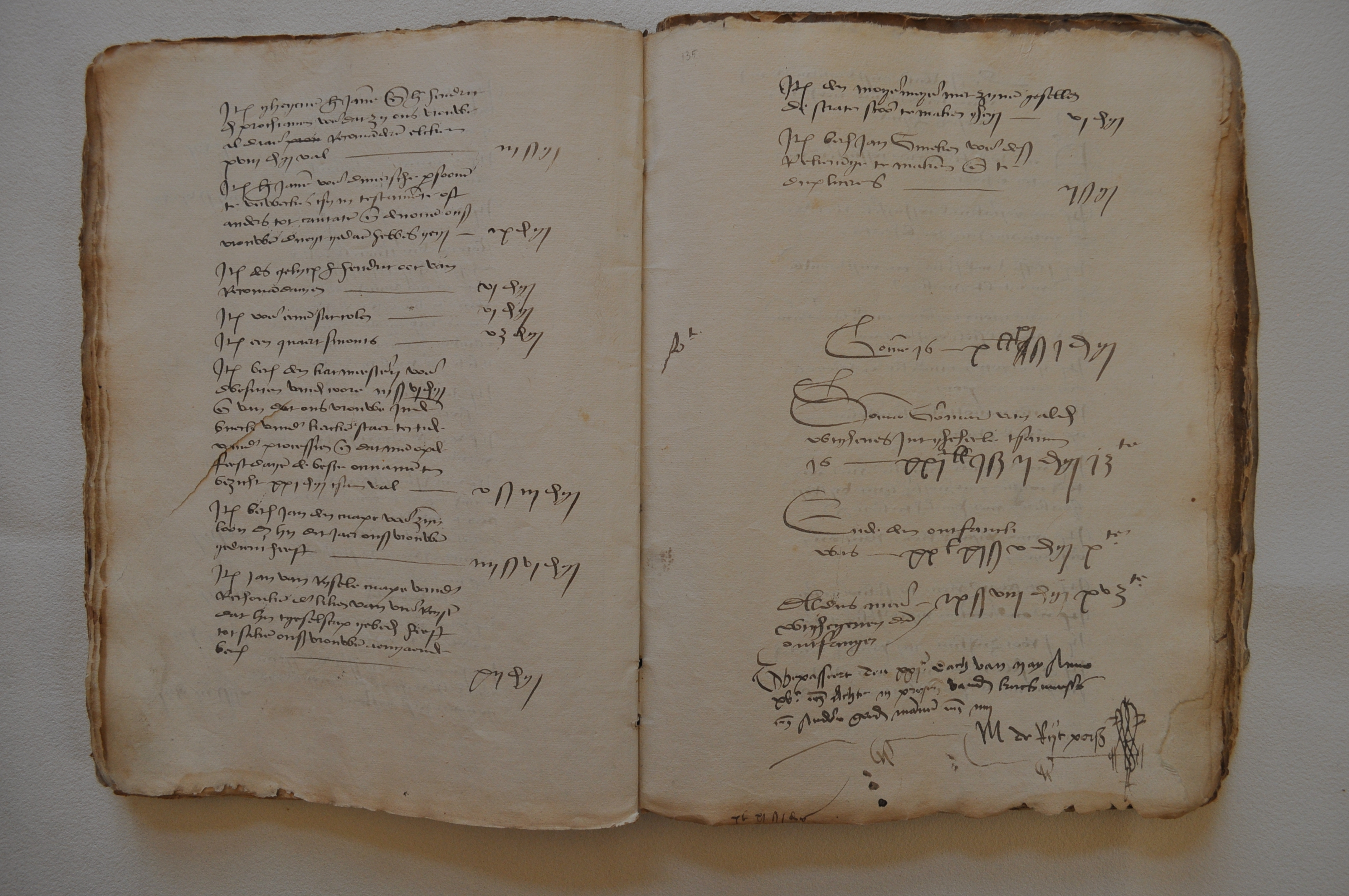 Account book of the Brussels chapter of the Confraternity of the Seven Sorrows (1499-1516), these pages (p. 134-135) are written by Jan Smeken (mentioning his name on top of p. 135). The account book is now kept at the Archives of the City of Brussels, Historisch archief, Register 3837.